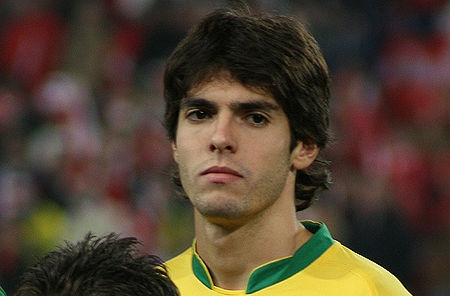 Kaká, St. Jakob Stadion, Basel (Switzerland), Switzerland - Brasil (1-2)